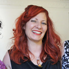 Dayne Ogilvie winner Amber Dawn Dayne_Ogilvie_Prize